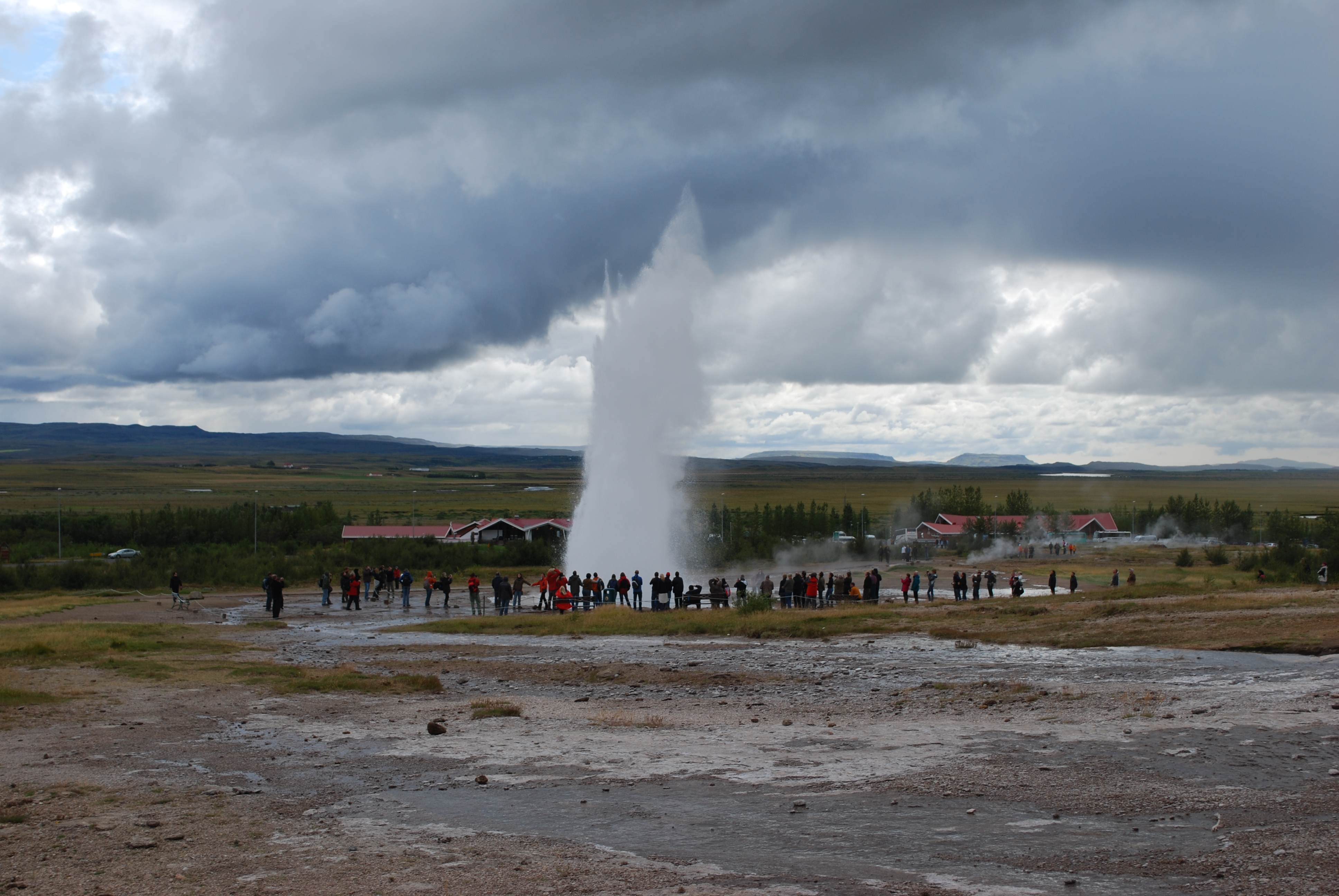 Eruption of Strokkur geyser, Iceland